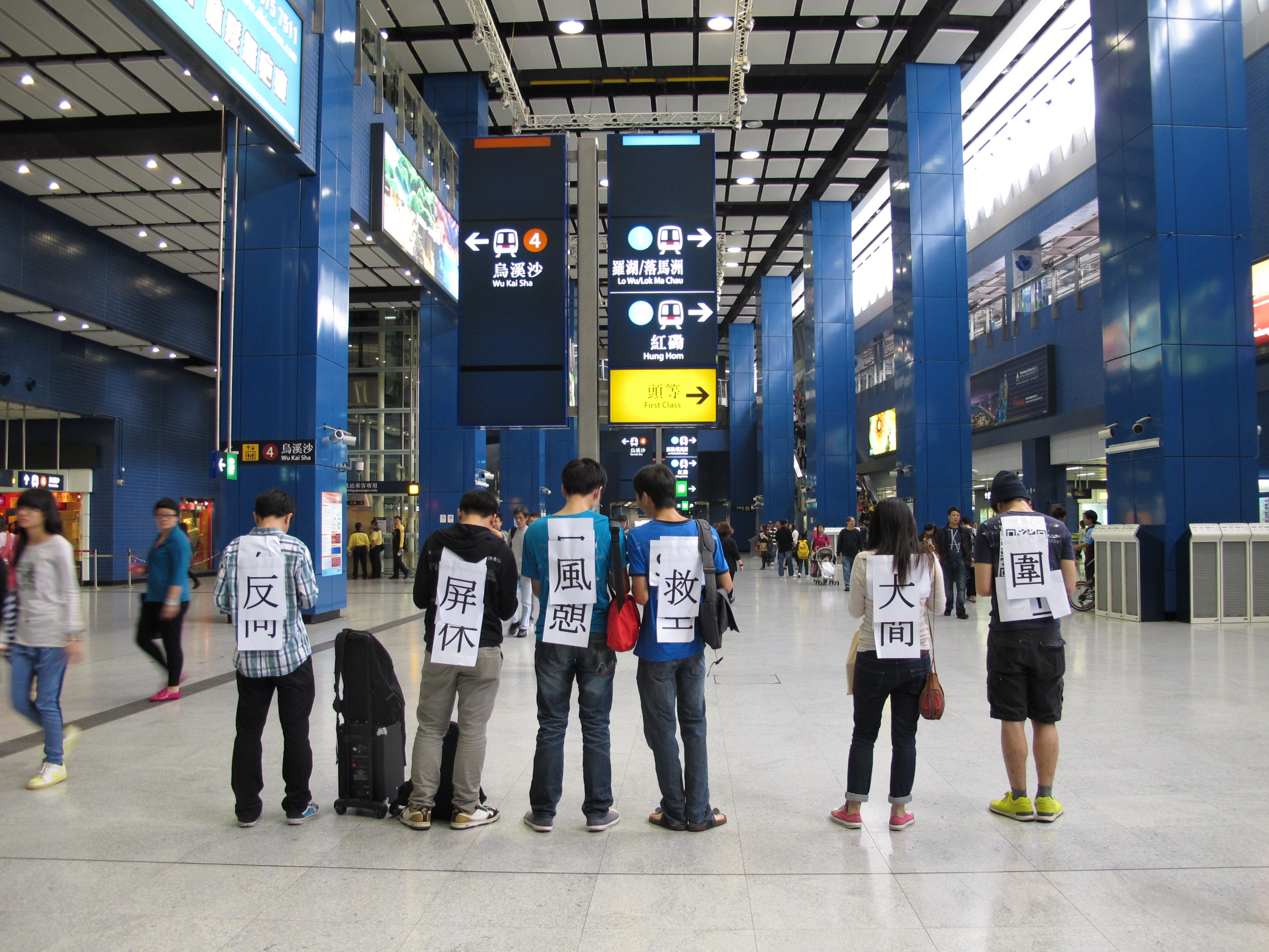 Anti Tai Wai Station Property Development Protest